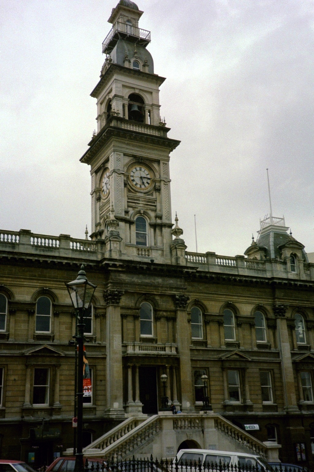 Town Hall at the Octagon in Dunedin.